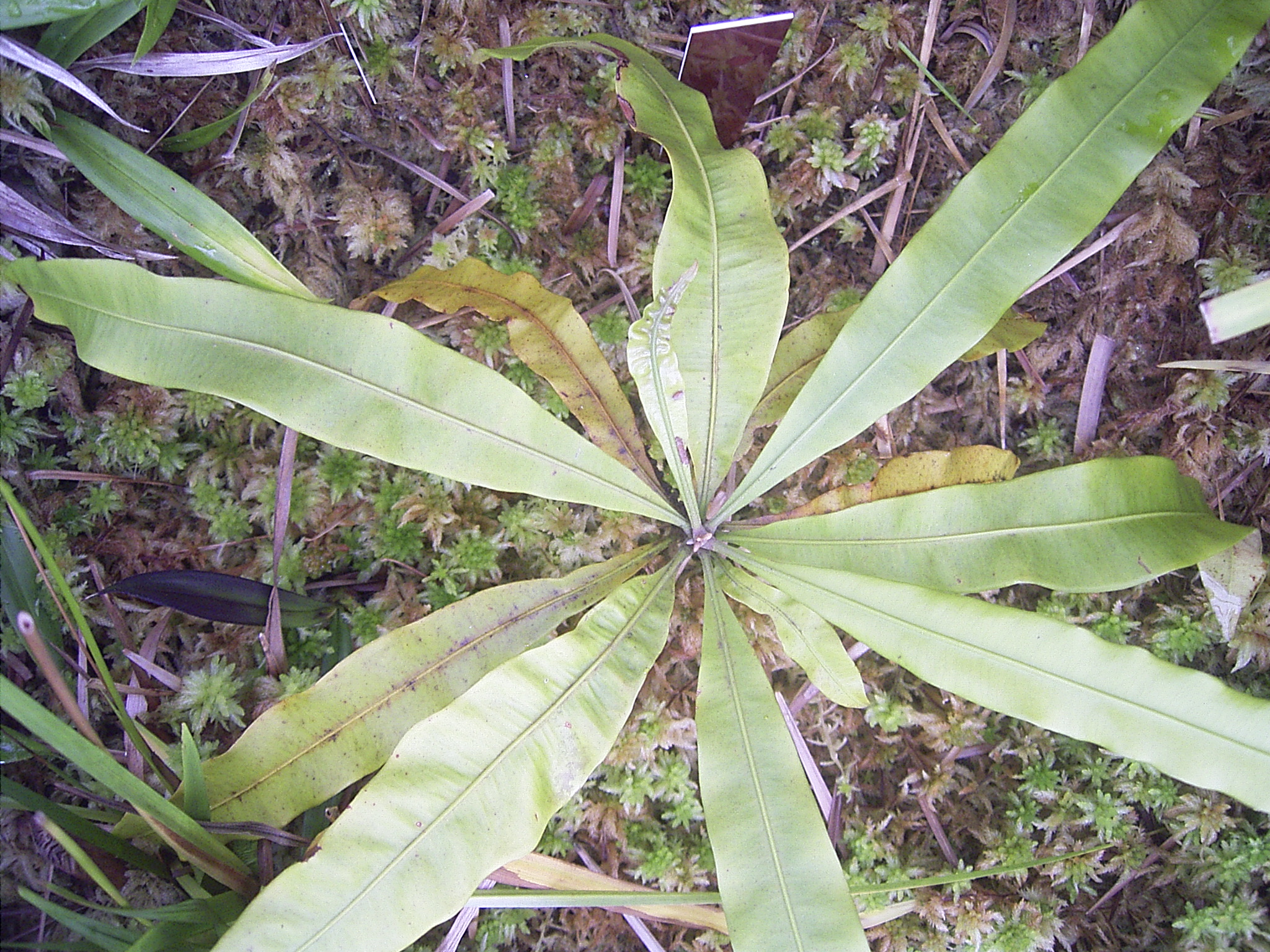 Top view of Triphyophyllum peltatum